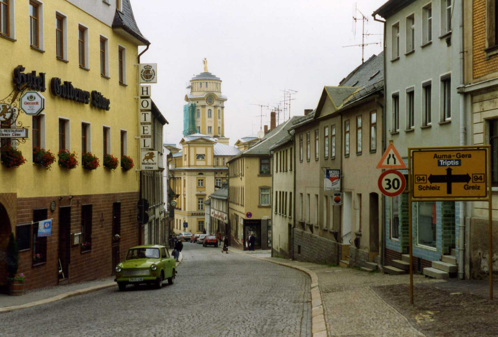 Zeulenroda, Thuringia, Germany, 1993